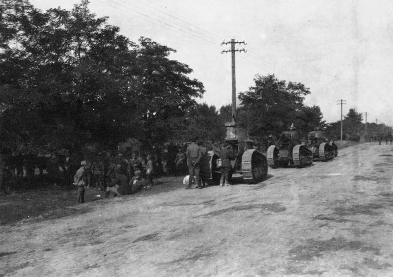 Column of FT-17 tanks on the road somewhere around Lwów area.